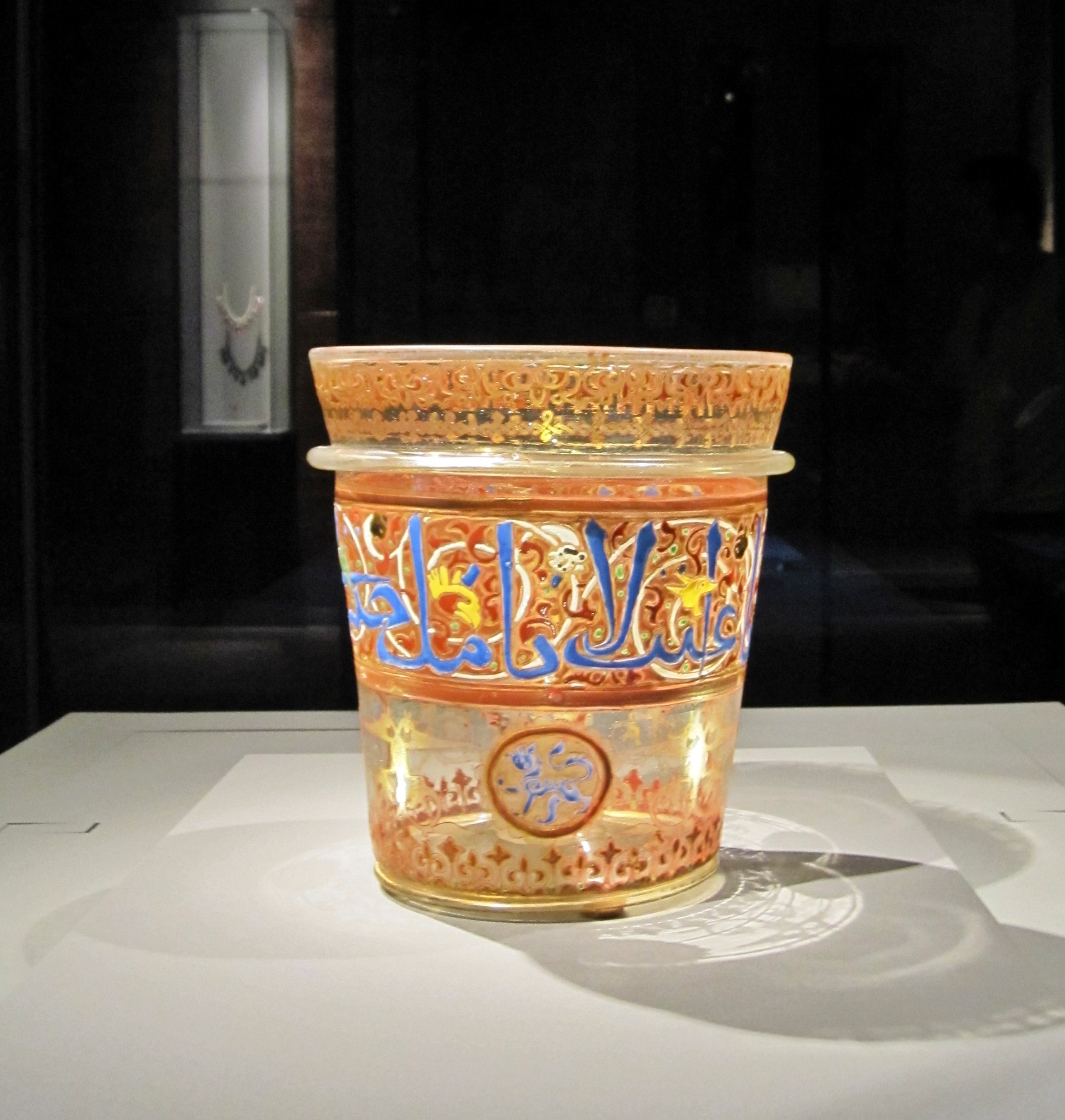 Photo of an exhibit at Museum of Islamic Art, Doha Bucket, Egypt or Syria, Mid-14th century, Mamluk, Guilded and Enamel Glass, With only four other glass buckets known to exist, this bucket is a true rarity, although the technical and stylistic methods are common. It would have been used as a finger bowl, with its inscription the same as found on brass finger bowls. Every design element can be found on other pieces of 13th and 14th century enamelled glass, from the thick enamel to the motive details